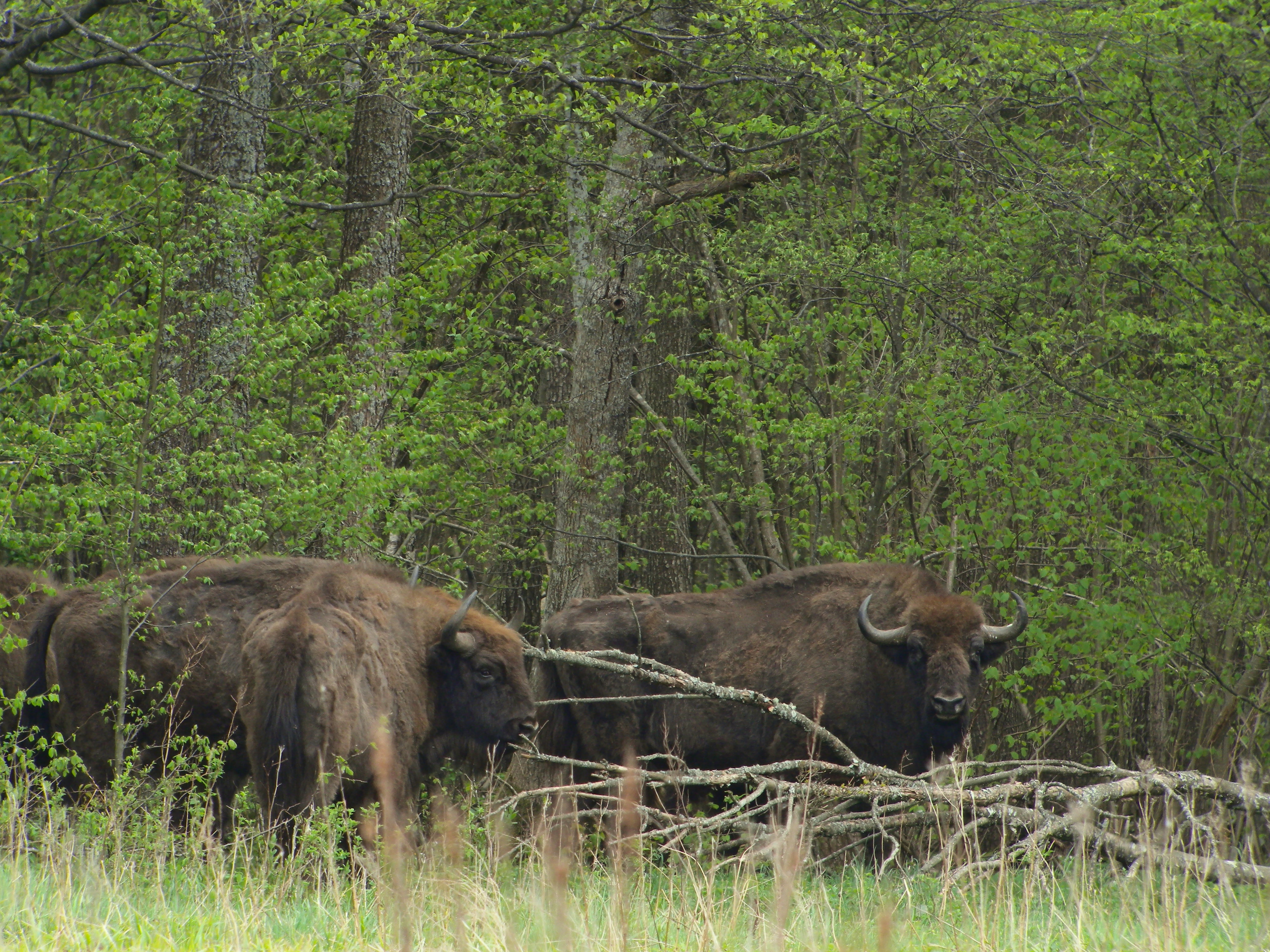 European bison (Bison bonasus) near Teremiski at Białowieża National Park, Poland